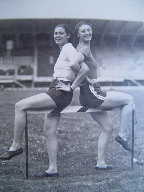 The Italian hurdlers Claudia Testoni and Ondina Valla